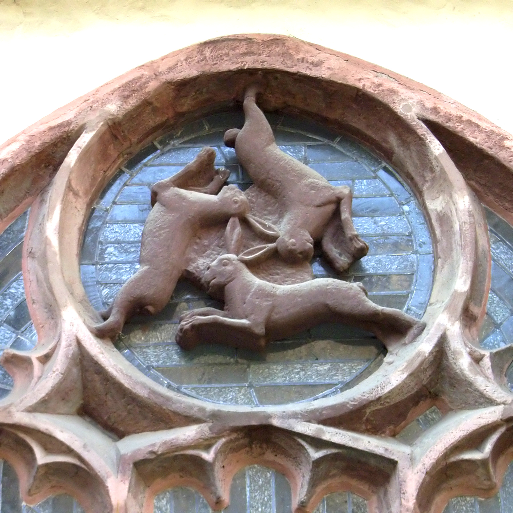 Paderborn, Germany: Dreihasenfenster (“Window of Three Hares”) in the cloister's inner courtyard of Paderborn Cathedral.